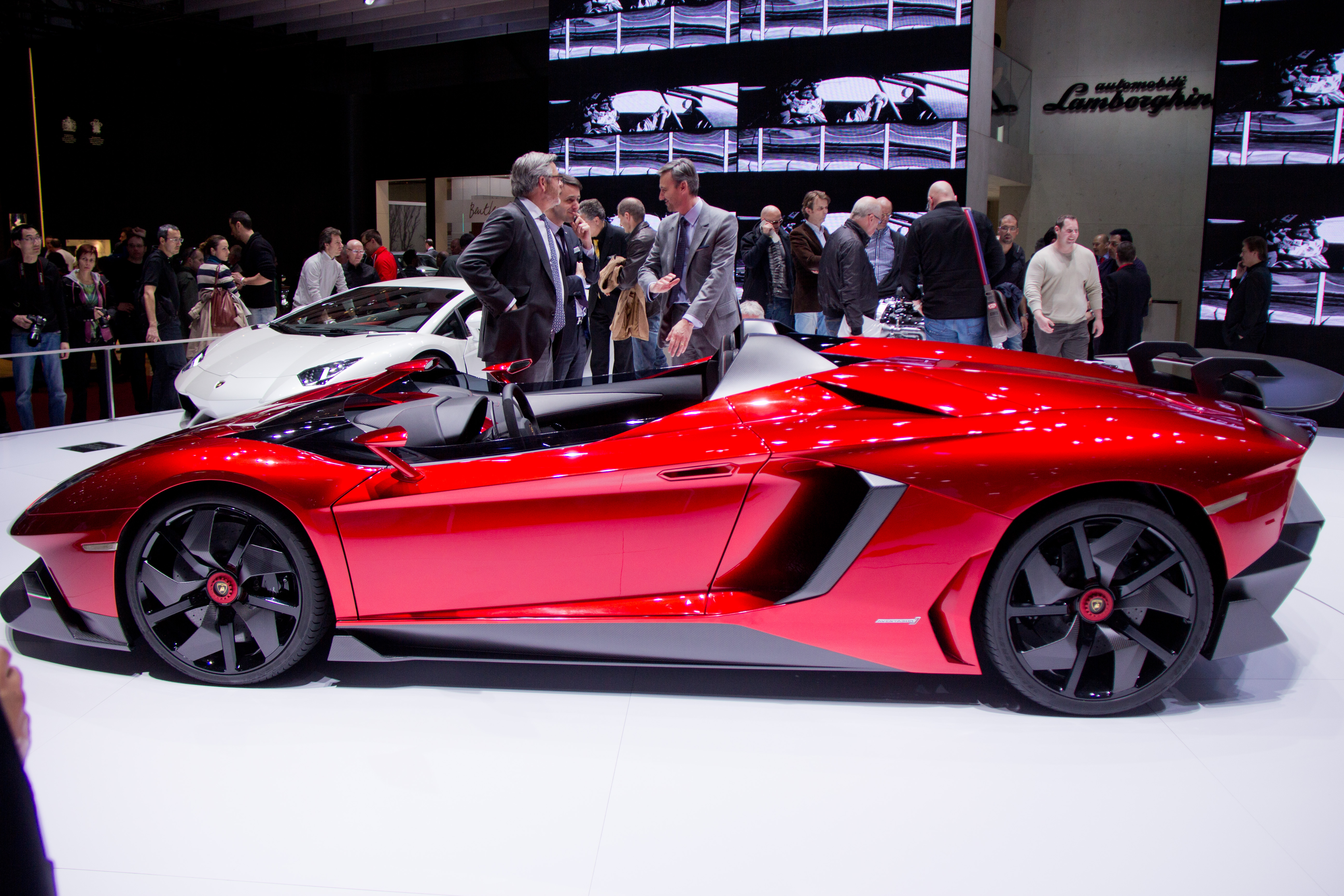 Lamborghini Aventador J at the Geneva Motor Show 2012